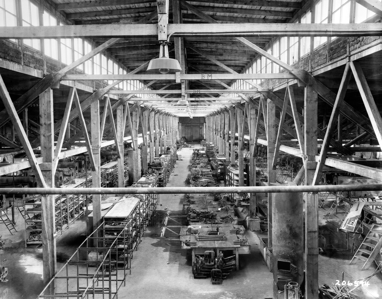 Abandoned aircraft factory at Flossenbürg, photographed by the US Army Signal Corps after the liberation of the camp. Presumably the one operated by Messerschmitt at the camp since 1943, the factory employed 5,700 workers in mid-1944. Source: Huebner, Todd (2009). "Flossenbürg Main Camp". In Megargee, Geoffrey P. (ed.). Encyclopedia of Camps and Ghettos, 1933–1945. 1. Bloomington: United States Holocaust Memorial Museum. pp. 560–565. ISBN 978-0-253-35328-3. See also Flossenbürg concentration camp#Aircraft and armaments.